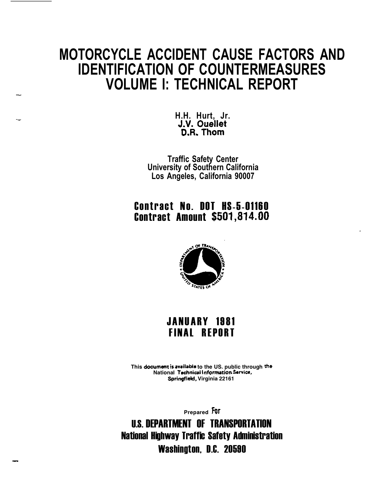 The Hurt Report (cover page only) Abstract: This report presents the data and findings from the on-scene, in-depth investigations of 900 motorcycle accidents and the analysis.of 3600 traffic accident reports of motorcycle accidents in the same study area. Comprehensive data were collected and synthesized for these accidents to cover all details of environmental, vehicle and human factors. In addition, exposure data were collected and analyzed at 505 accident sites at the same time-of-day, same day-of-week, with same environmental conditions. These exposure data define the population at risk so that comparison with accident data will reveal the factors which are overrepresented in the accident population. The analysis and review of these data identify cause factors of motorcycle accidents, relates the effectiveness of safety equipment and protective devices, and identifies countermeasures for accident and injury prevention. Volume I is the Technical Report containing the most significant data, data analysis, findings, conclusions and recommended countermeasures. Volume II is the Appendix with terminology, field data forms, and supplemental data and analysis. Authors: HURT. H.H., Jr., OUELLET. J.V., and THOM, D.R. Key words: ACCIDENT, CAUSE, COUNTERMEASURES, FACTORS, IDENTIFICATION, MOTORCYCLE, VOLUME I This document was prepared under the sponsorship of the National Center for Statistics and Analysis, National Highway Traffic Safety Administration, Department of Transportation, in the interest of information exchange. The United States Government assumes no liability for its contents or use thereof. The findings and conclusions in this report are those of the author and not necessarily those of the National Highway Traffic Safety Administration.